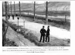 Contemporary newspaper artistic rendition of the capture of Guillaume Schnaebelé